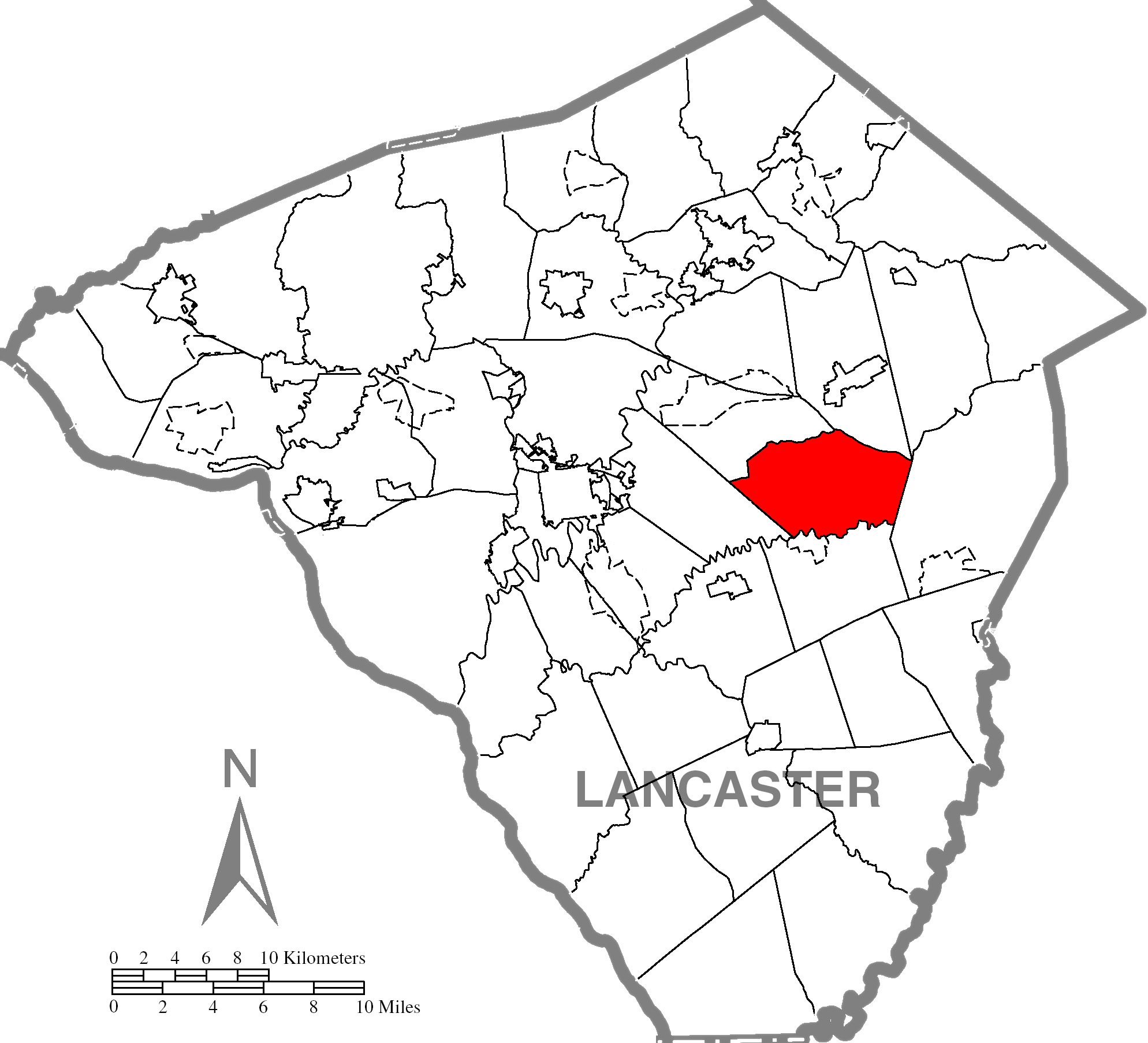 Highlighted Lancaster County map of Leacock Township.